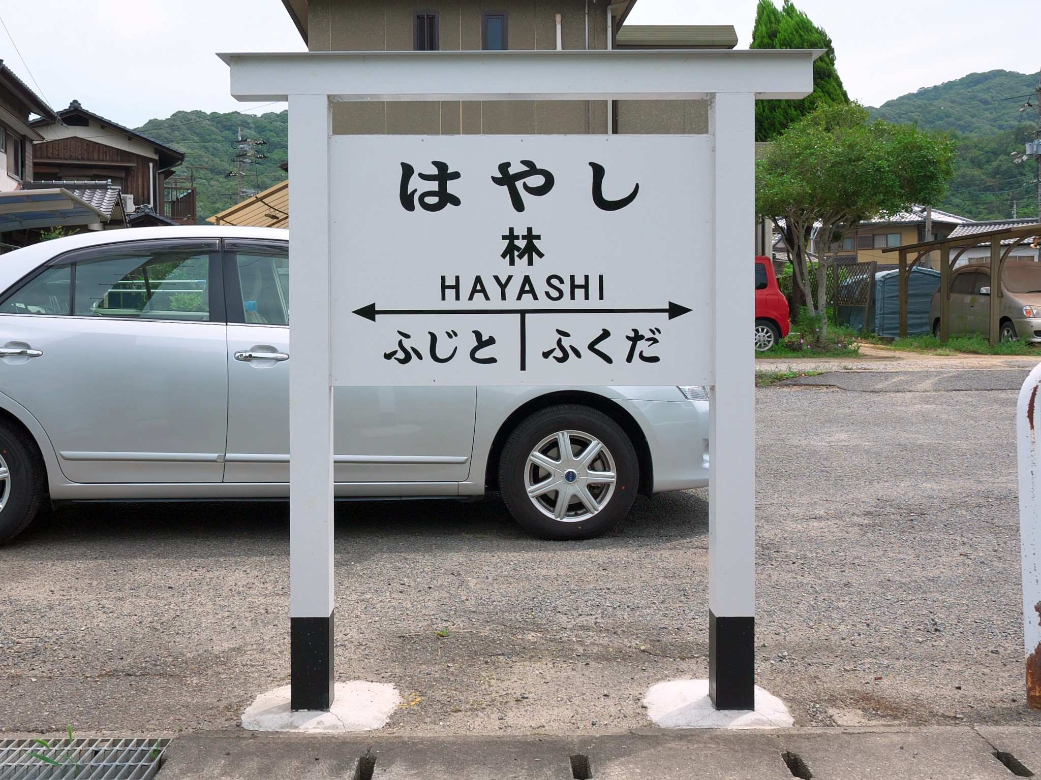 The ruin of Hayashi Station on Shimotsui Dentetsu Line in Hayashi, Kurashiki, Okayama prefecture